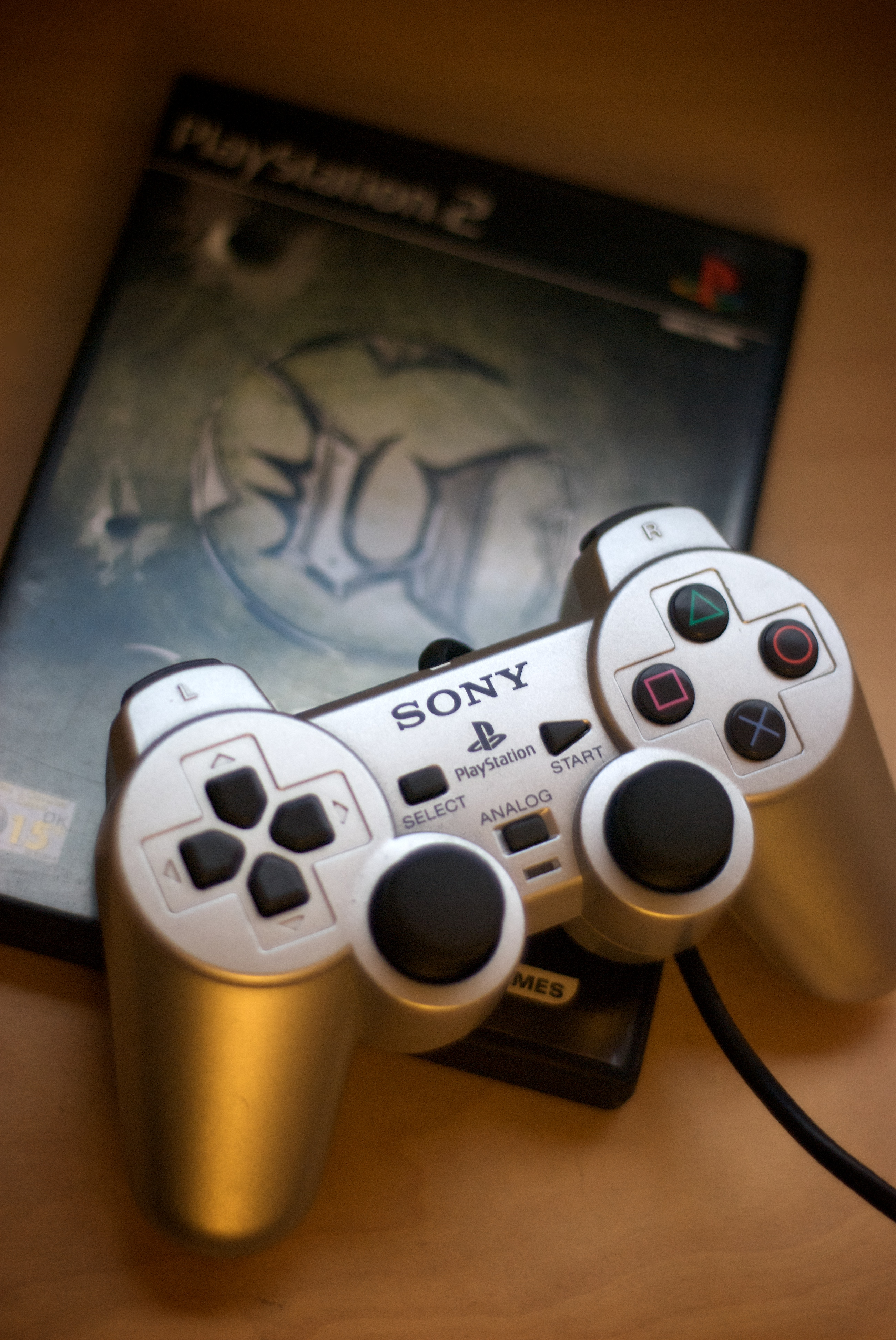 Unreal Tournament box for PS2.